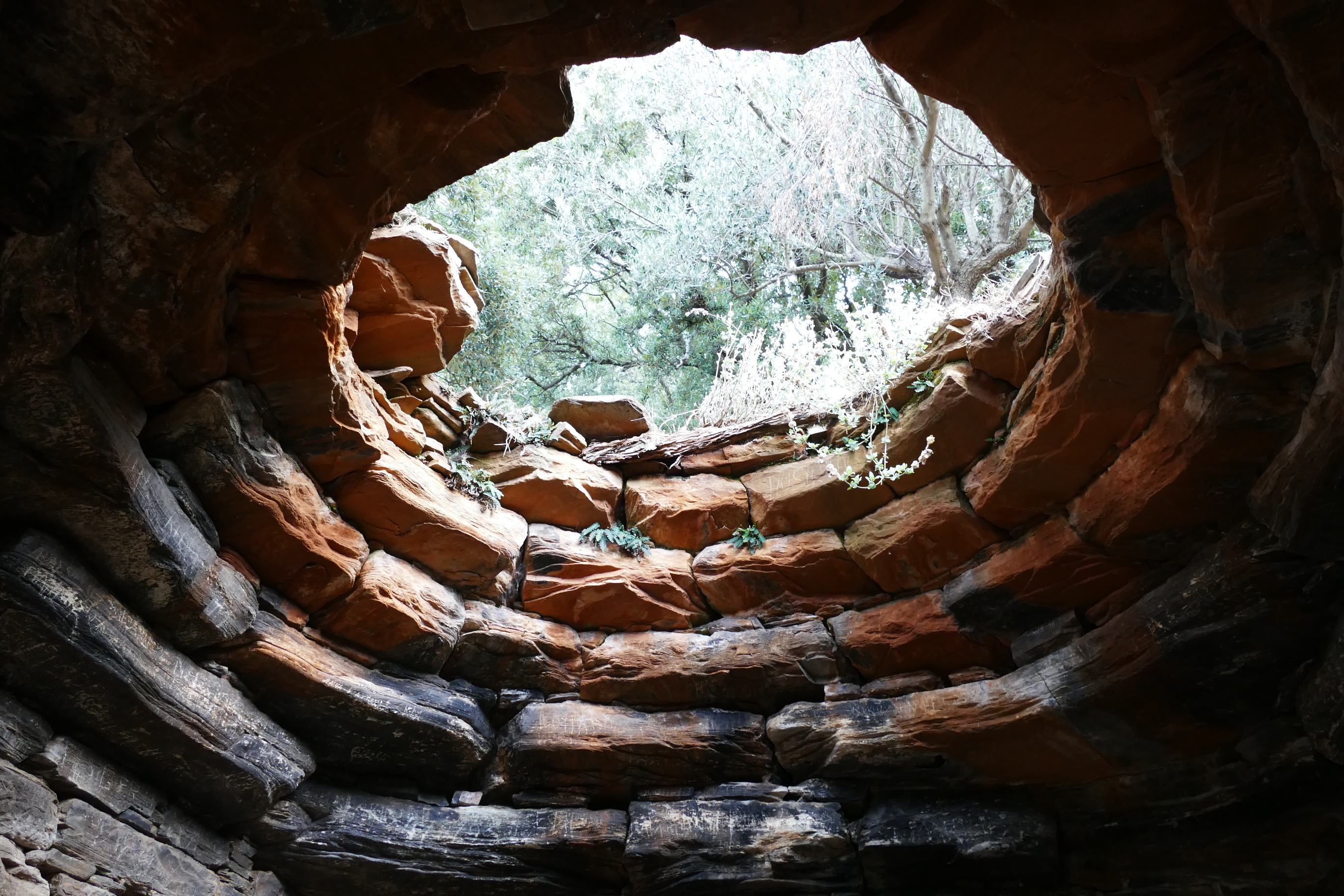 Dragon-House Palli-Lakka building East near Styra/Euboia/Greece